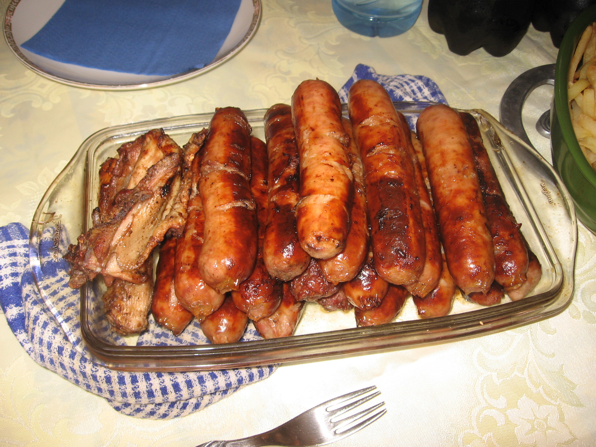 Chorizo in israel. we ate them at my in-law's